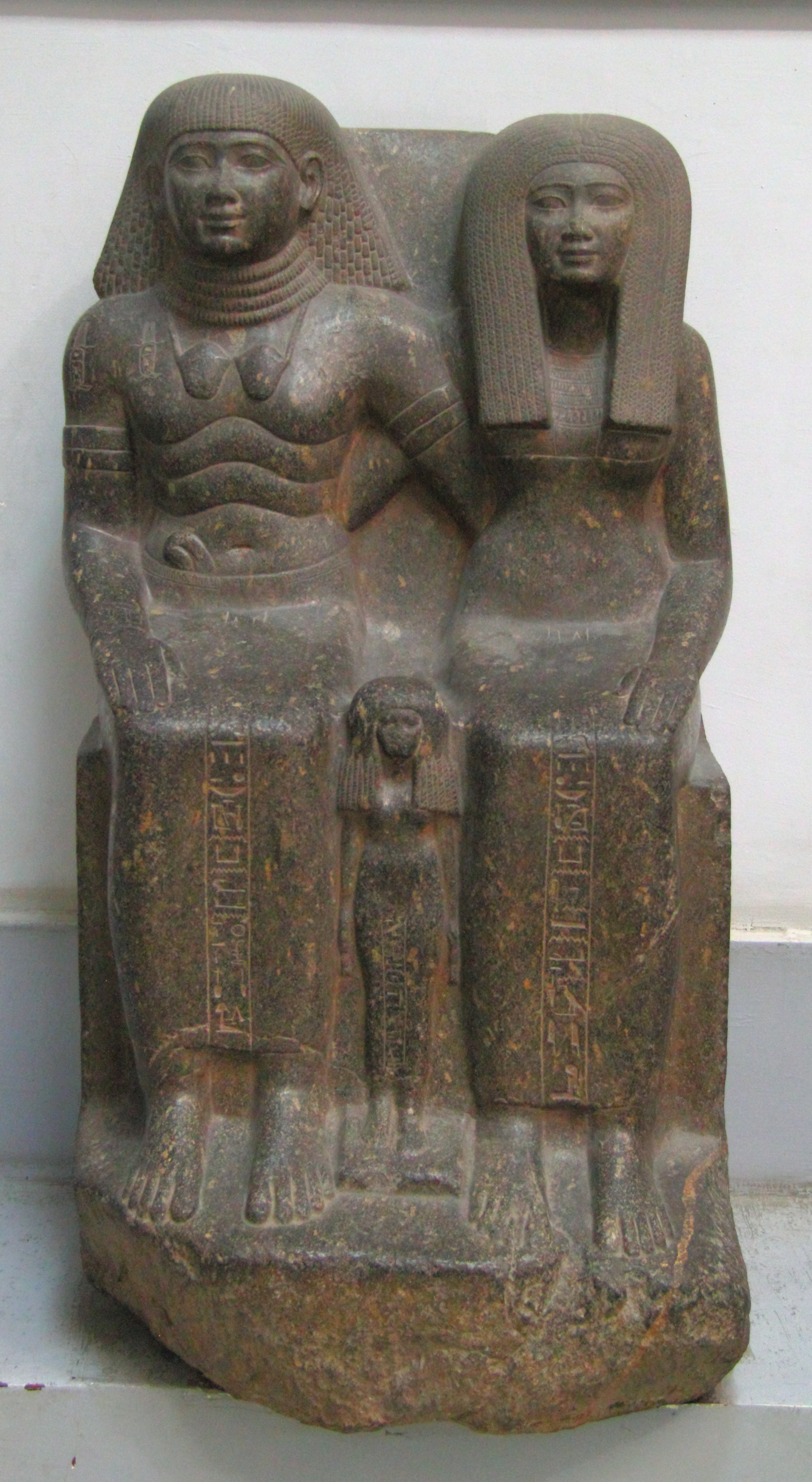 Egyptian Museum, Cairo: statue of the official Sennefer (mayor of Thebes) with his wife and daughter, 18th dynasty, New Kingdom of Egypt